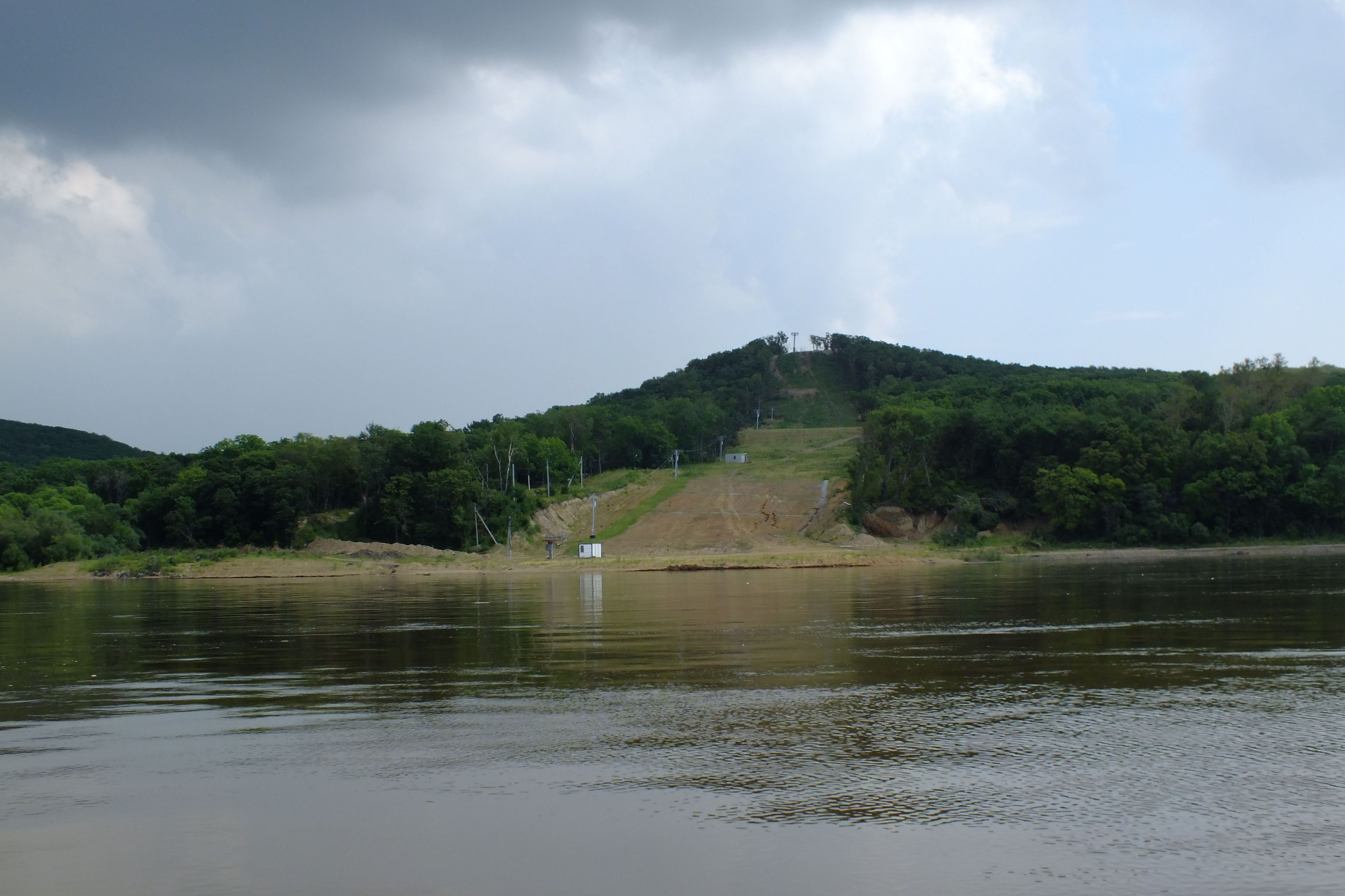 Khabarovsky District